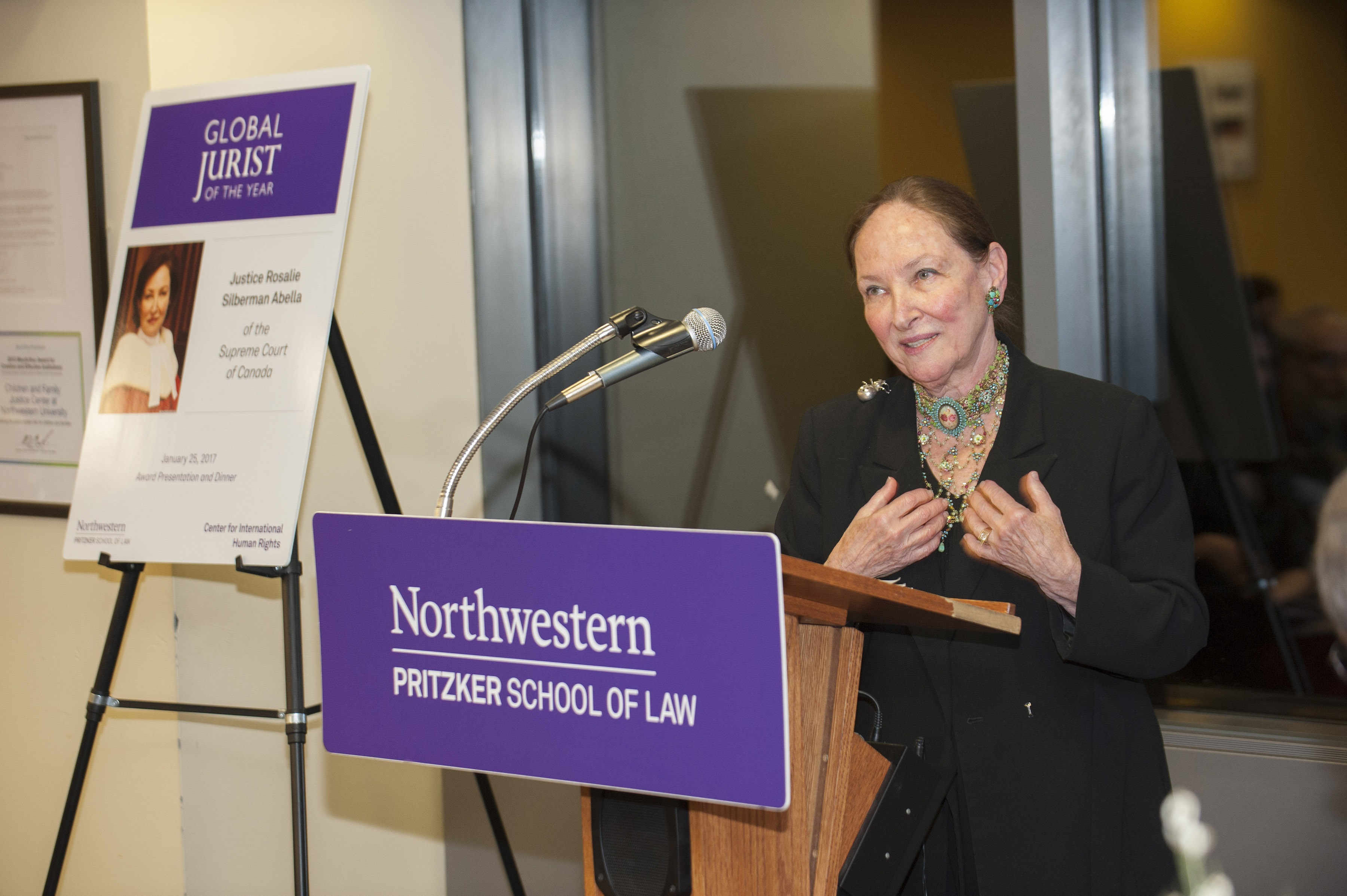 CHICAGO, IL - JANUARY 25: Northwestern Pritzker School of Law Center for International Human Rights presented its annual Global Jurist Award to Justice Rosalie Silberman Abella of the Supreme Court of Canada on Wednesday, January 25, 2017 during a reception and dinner in the Bluhm Legal Clinic on the Chicago campus of Northwestern University in Chicago, Illinois. The Global Jurist of the Year Award is granted annually to a judge in recognition of their contribution to the advancement of human rights or international law. (Photo credit: Randy Belice for Northwestern Law)